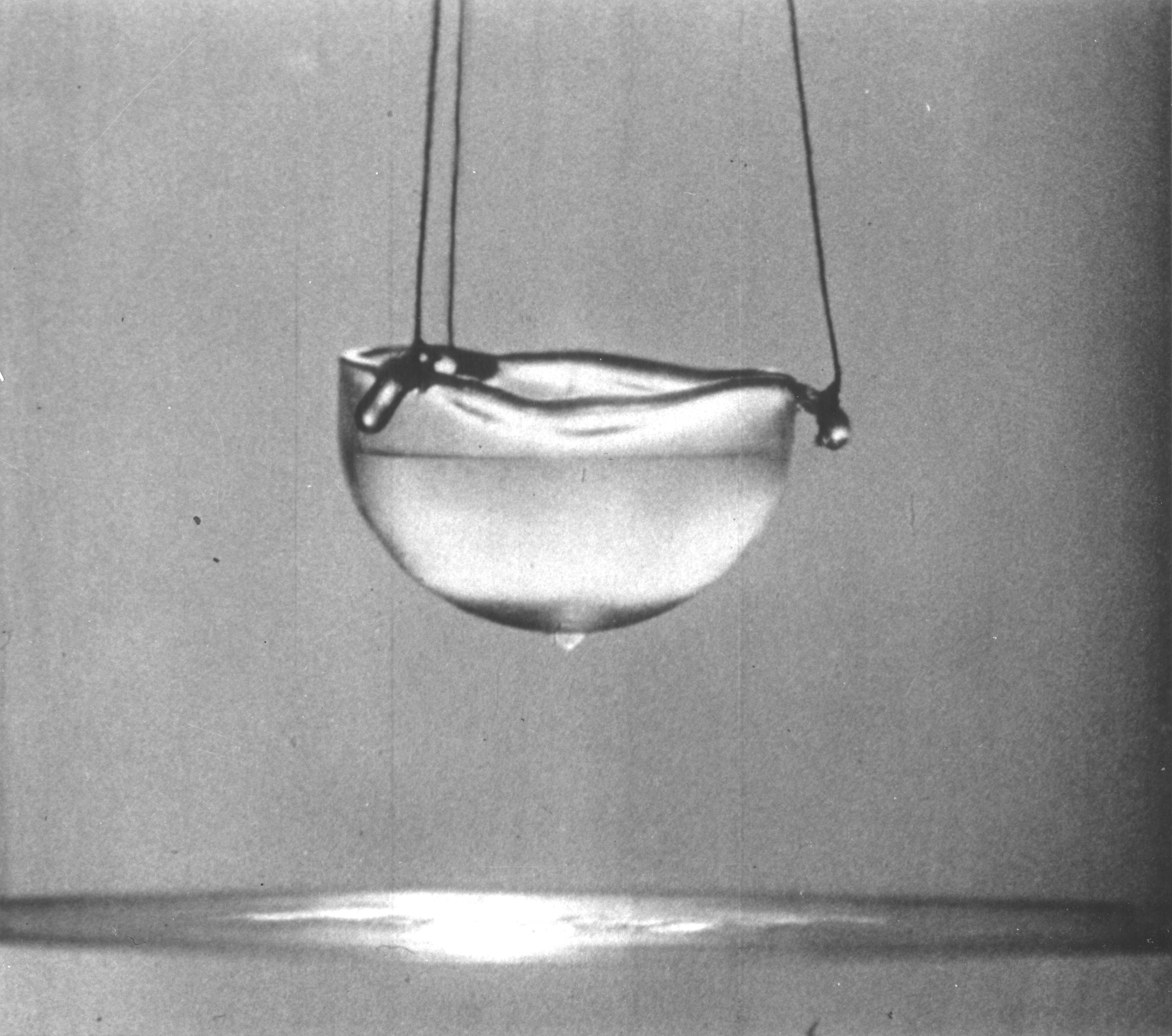 The liquid helium is in the superfluid phase. A thin invisible film creeps up the inside wall of the cup and down on the outside. A drop forms. It will fall off into the liquid helium below. This will repeat until the cup is empty - provided the liquid remains superfluid.